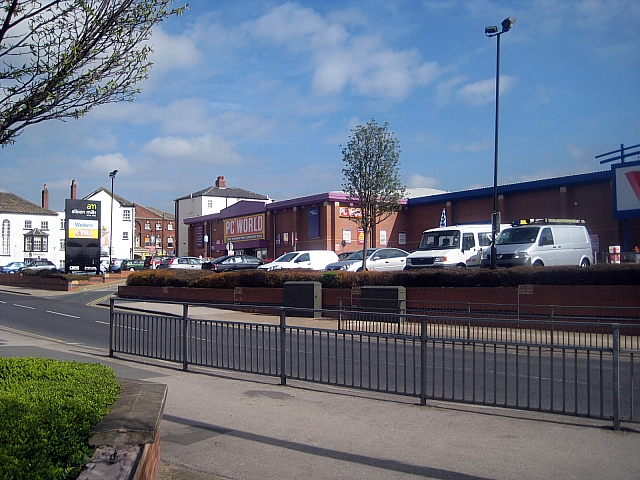 Albion Mills Retail Park. Ings Road entrance. See 1268588